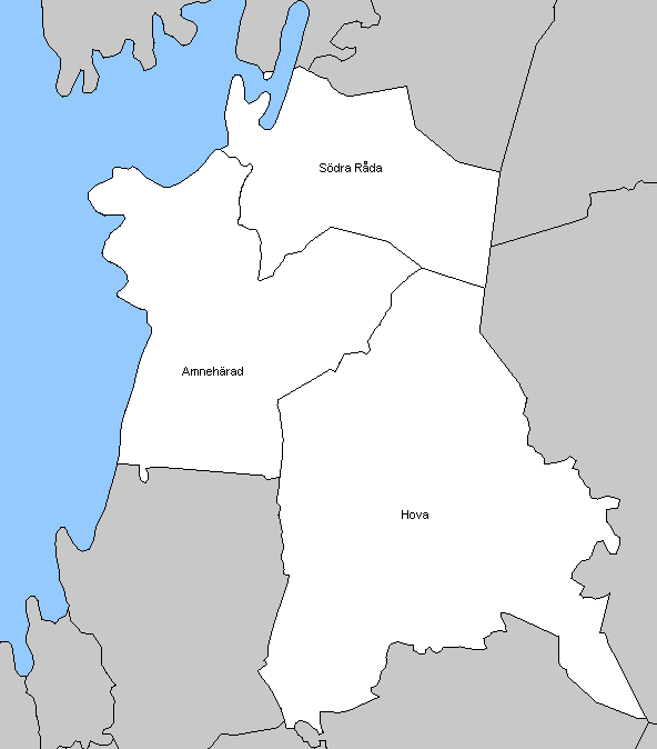 Parishes in the municipality of Gullspång